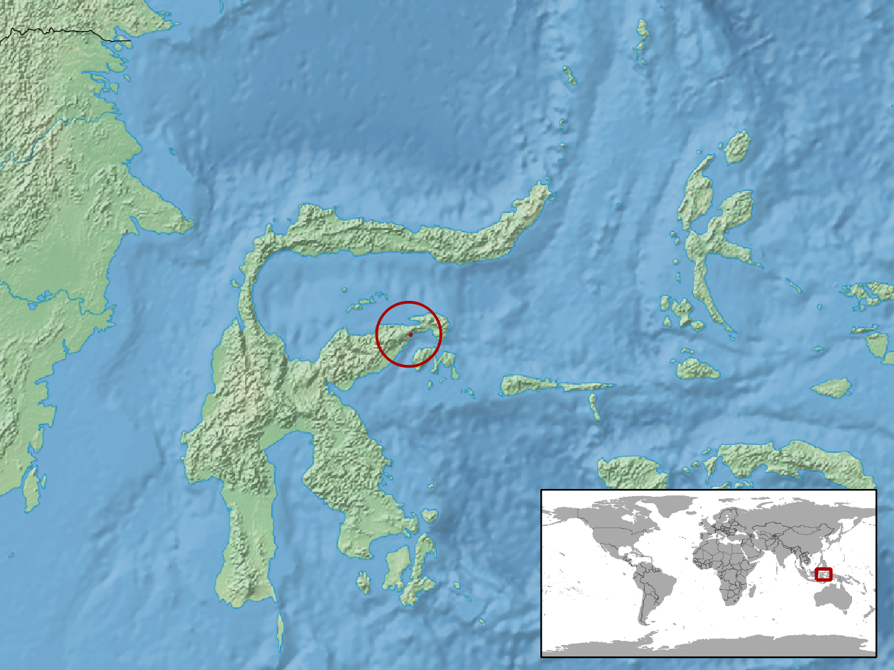 geographic distribution of Calamaria boesemani (Native: Indonesia (Sulawesi))